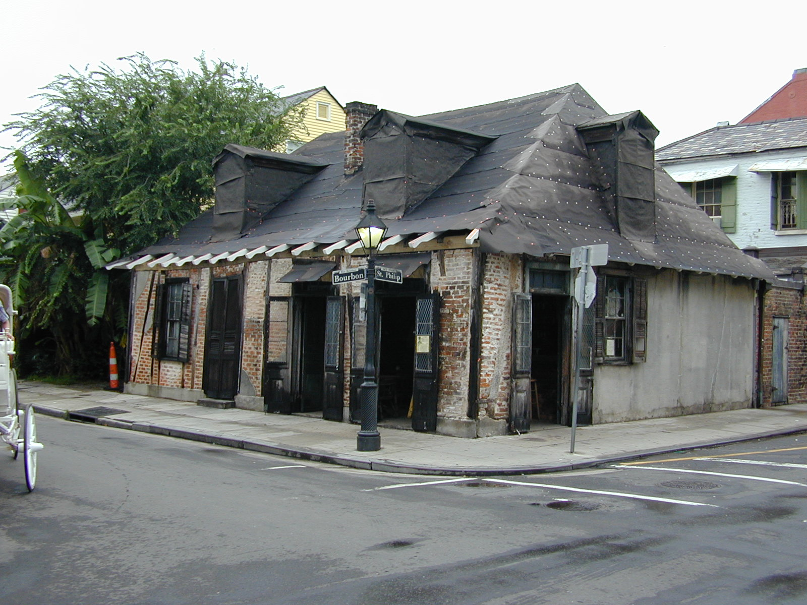 Lafitte's Blacksmith Shop, Bourbon Street, New Orleans, undergoing roof renovation Photo by Jan Kronsell, 2004